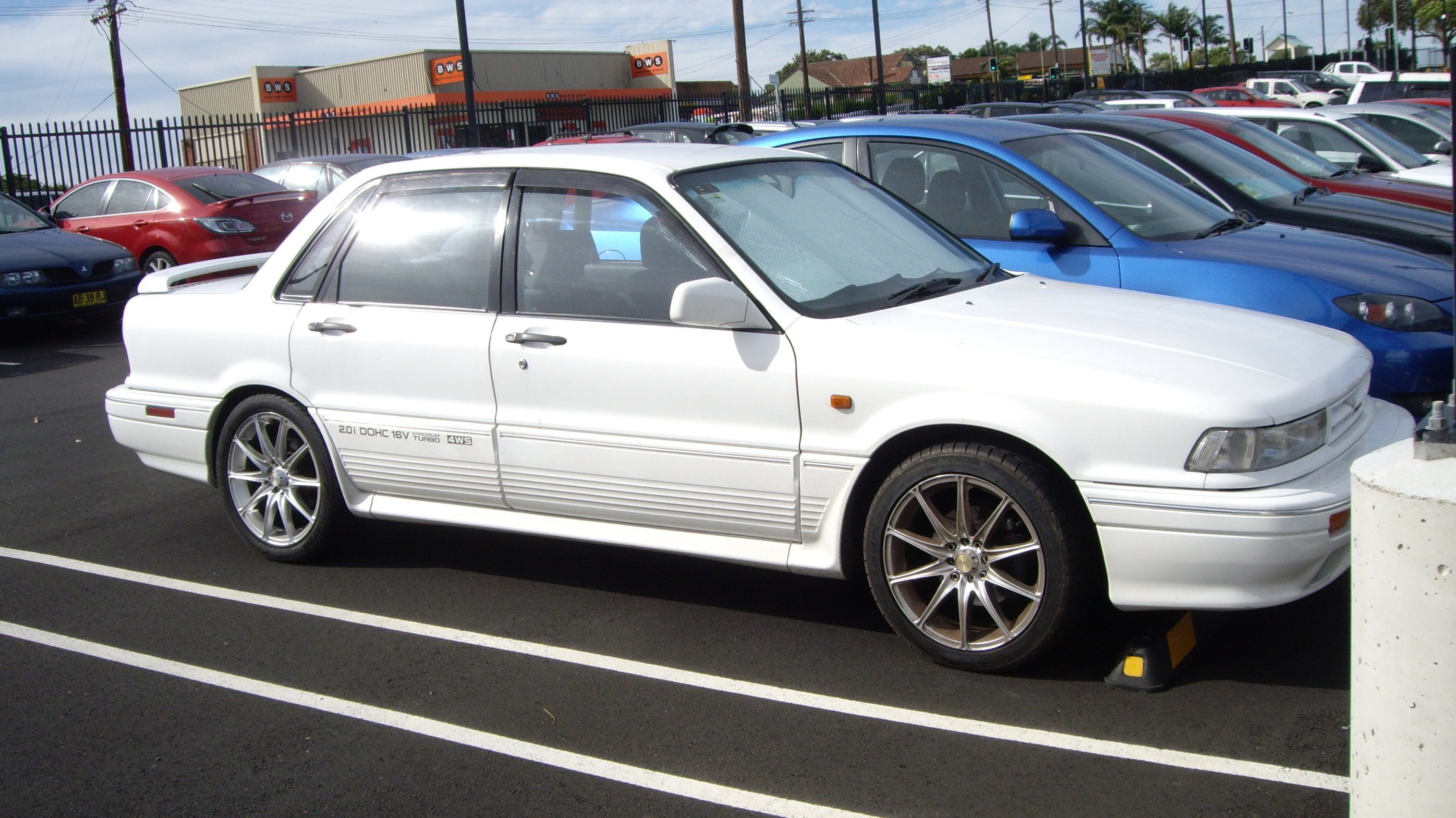 Bit surprised to see one of these as they aren't too common these days. Sometimes called the 'Evo zero' because this was Mitsubishis first attempt at a Group A 4WD turbo rally car back in the late 80s and was as far as I know the first appearance of the 4G63 motor in a road car. Just as Subaru started with a Legacy rally car and transplanted the running gear into the lighter Impreza sedan, Mitsubishi followed suite putting the VR4 running gear into the lighter Lancer sedan and creating the legendary Lancer Evolution series and the two have been fierce rivals ever since.